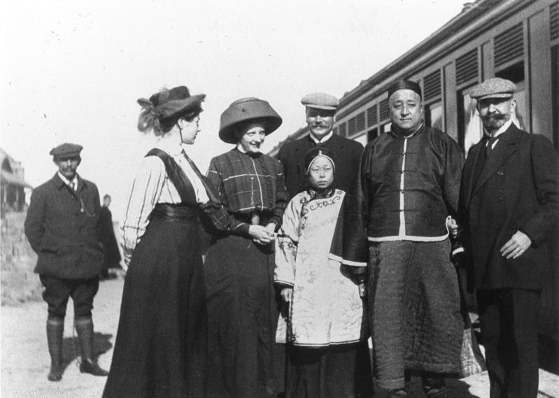 Information added by Wikimedia users.Duke and Duchess Yansheng (i.e., Kong Lingyi and his wife) at the Qingdao Railway station, 1910. The German governor, Oskar Truppel on the right; his daughter Marie on the left